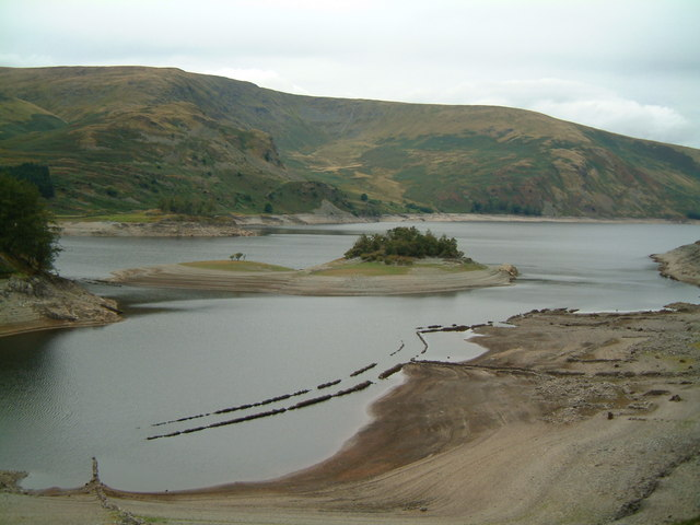 Wood Howe island, Haweswater Reservoir. Wood Howe island and ruins of Mardale Green village visible after summer drought of 2003. 'Drystone' wall sides of road can clearly be seen.